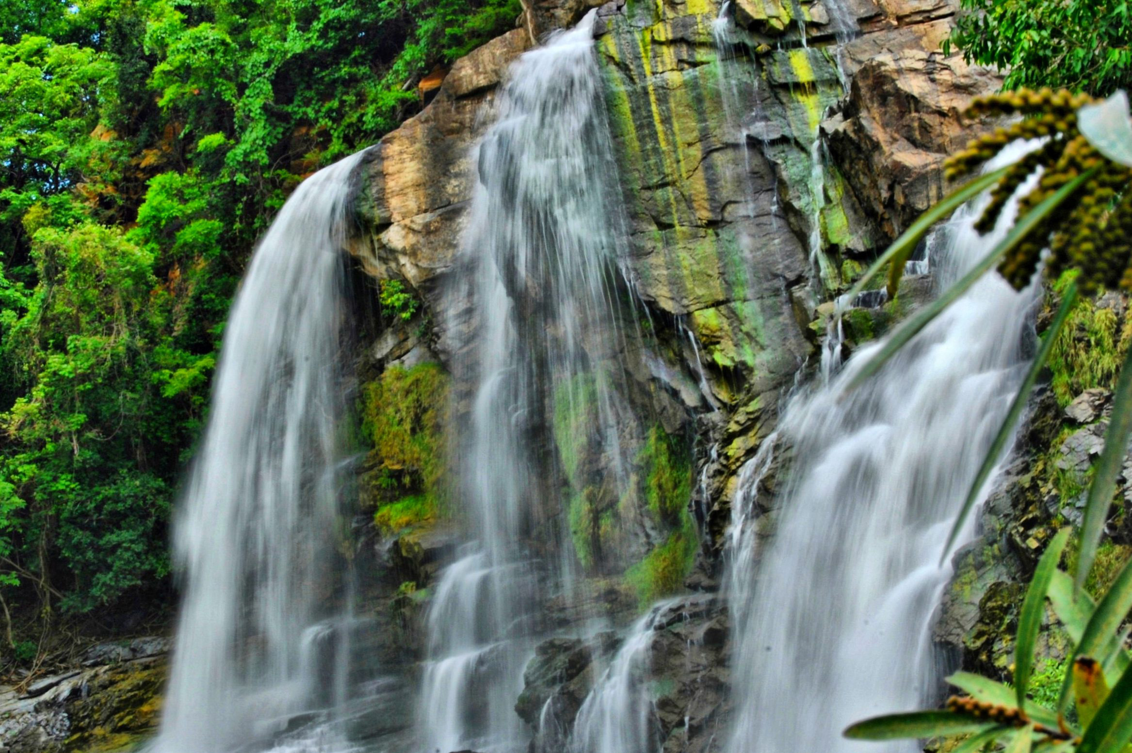 Bhara chukki water falls in Siva samudram, Karnataka. (in the previous version the image was containing watermark which says, 'Photography Ajith.U' (Actually it was 'hotography Ajith.U'; assumed that it would be 'Photography Ajith.U')